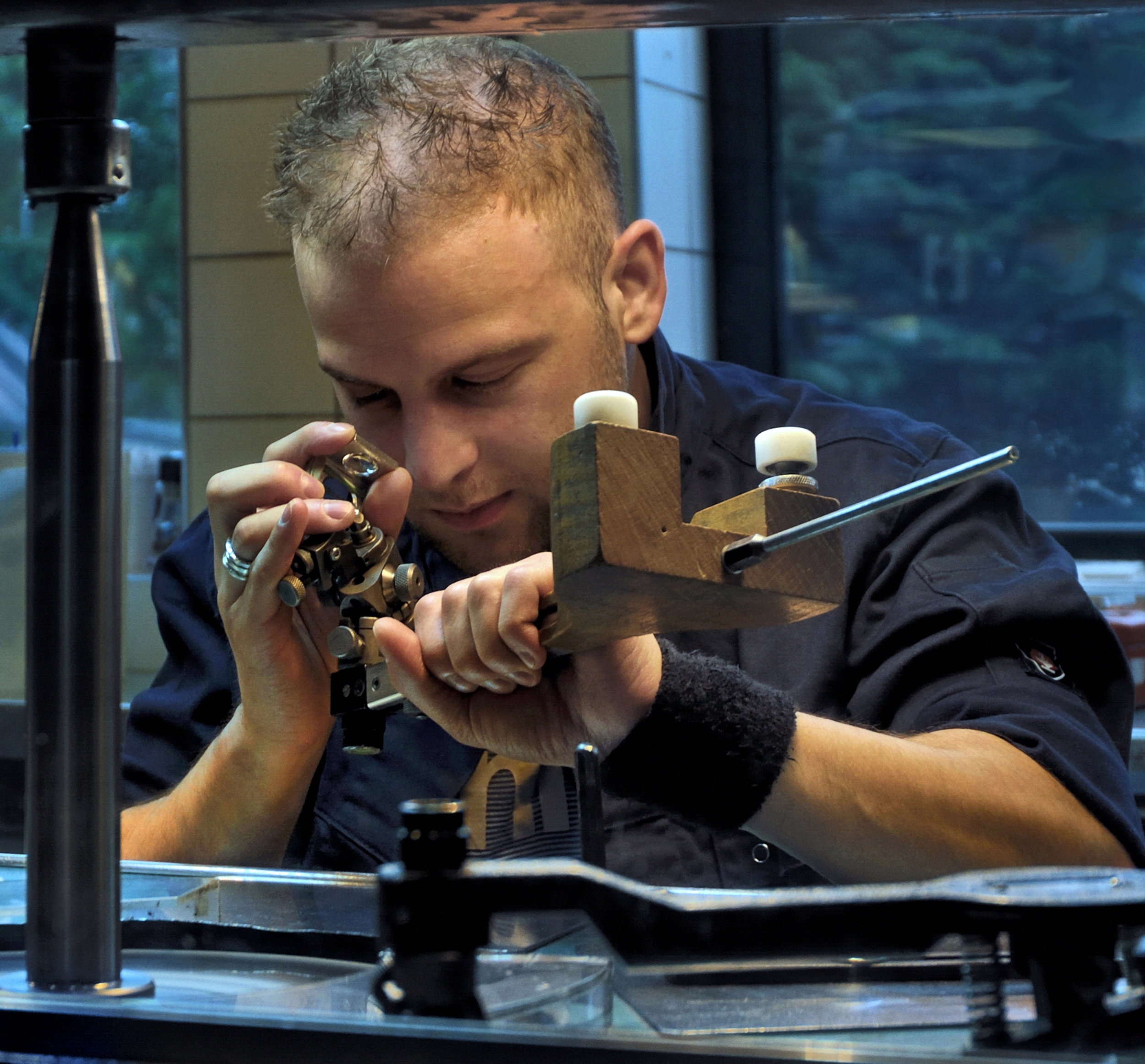 Diamond cutter. Amsterdam. 2012